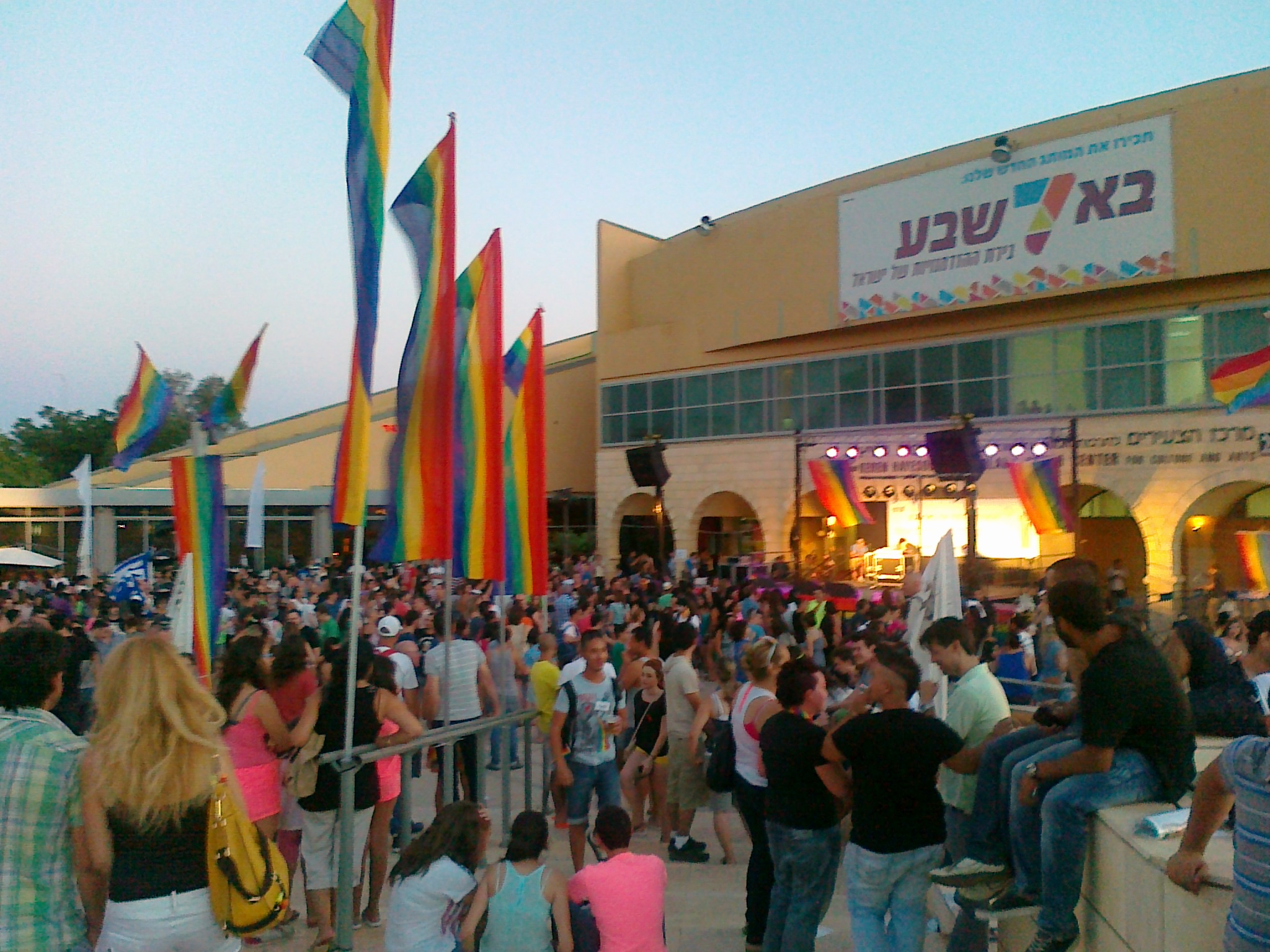 The Gay Pride event in Be'er Sheva 2012